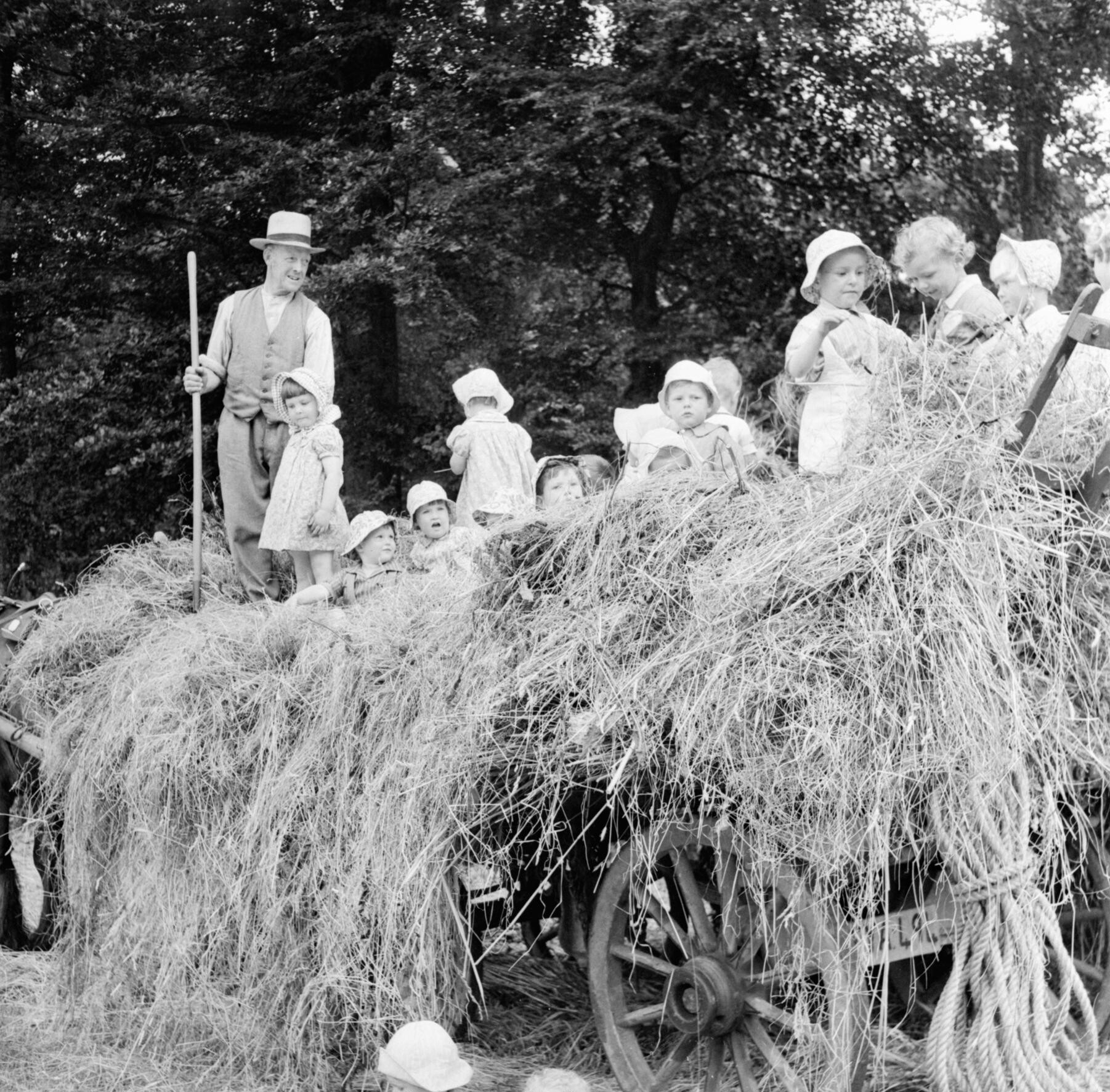 A group of young evacuees sit on a hay cart outside Chapel Cleeve Nursery in Washford, Somerset, 1942. A group of young children smile for the camera as they sit on a hay cart, watched over by the farmer, outside Chapel Cleeve Nursery in Washford, Somerset. Some wear bonnets to protect their heads from the sun.